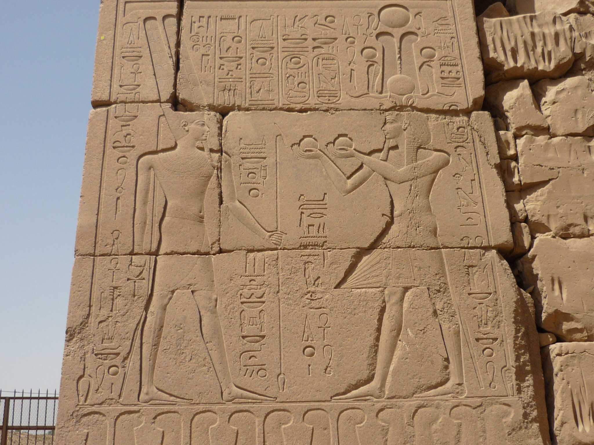 Wall relief of Amun receiving gifts from Horemheb on tenth pylon, Karnak temple of Amun-Ra, Egypt